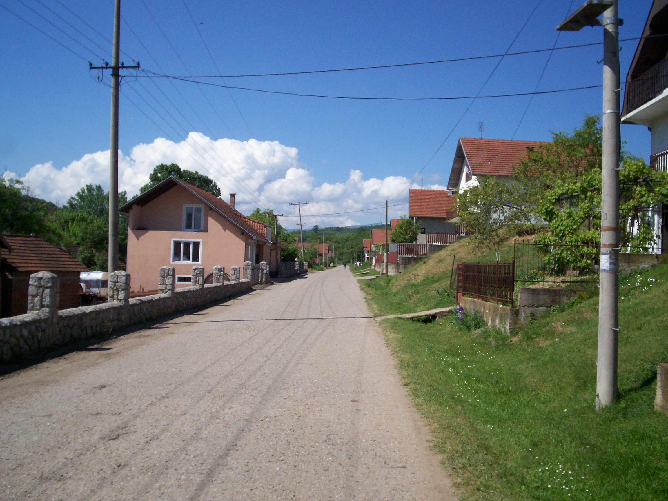 Donje Suhotno, Serbia